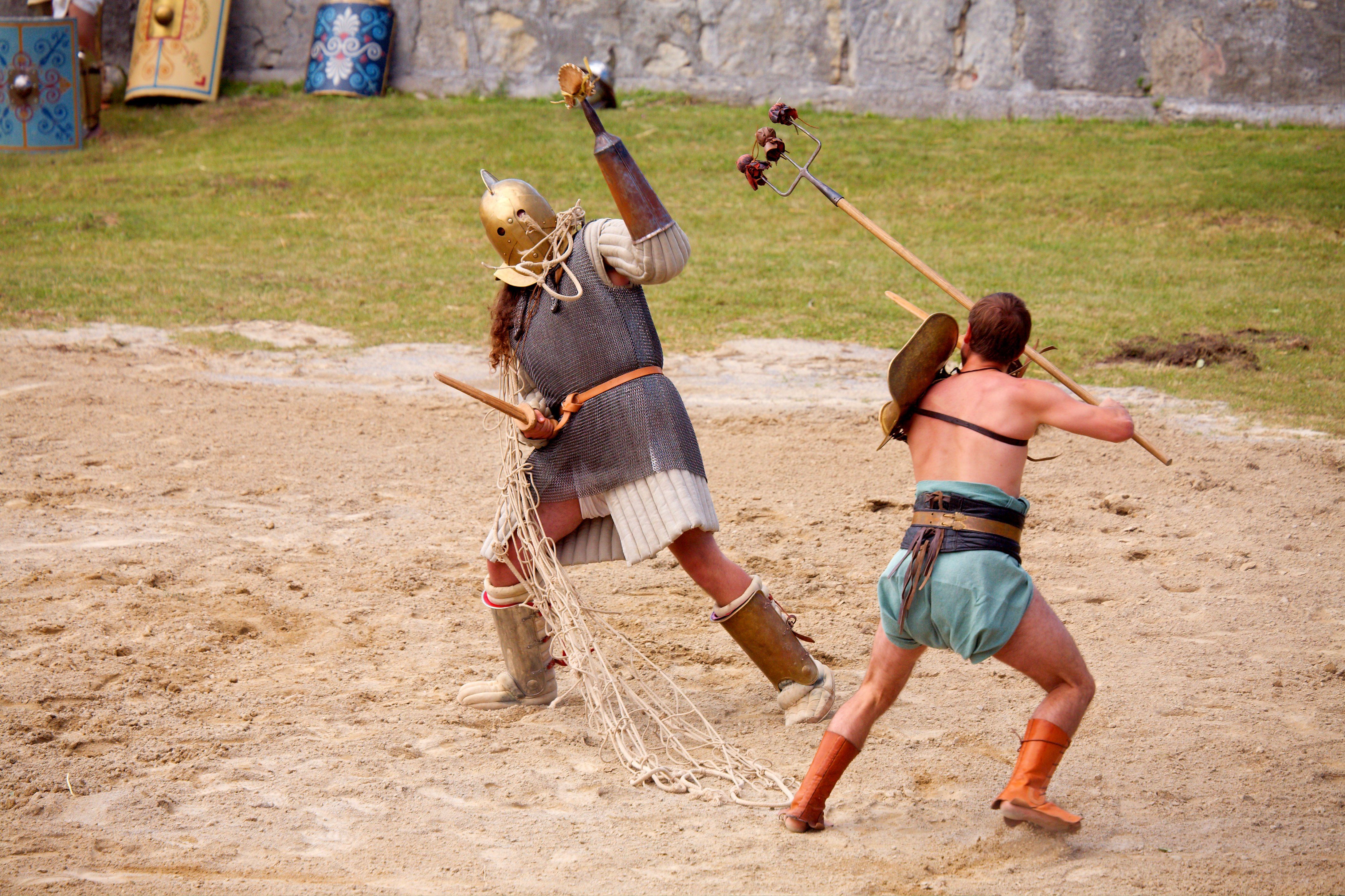 Show fight of the "familia gladiatoria pulli cornicinis" in Carnuntm, Austria.